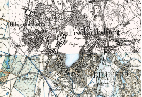 Hillerød - Nyhuse